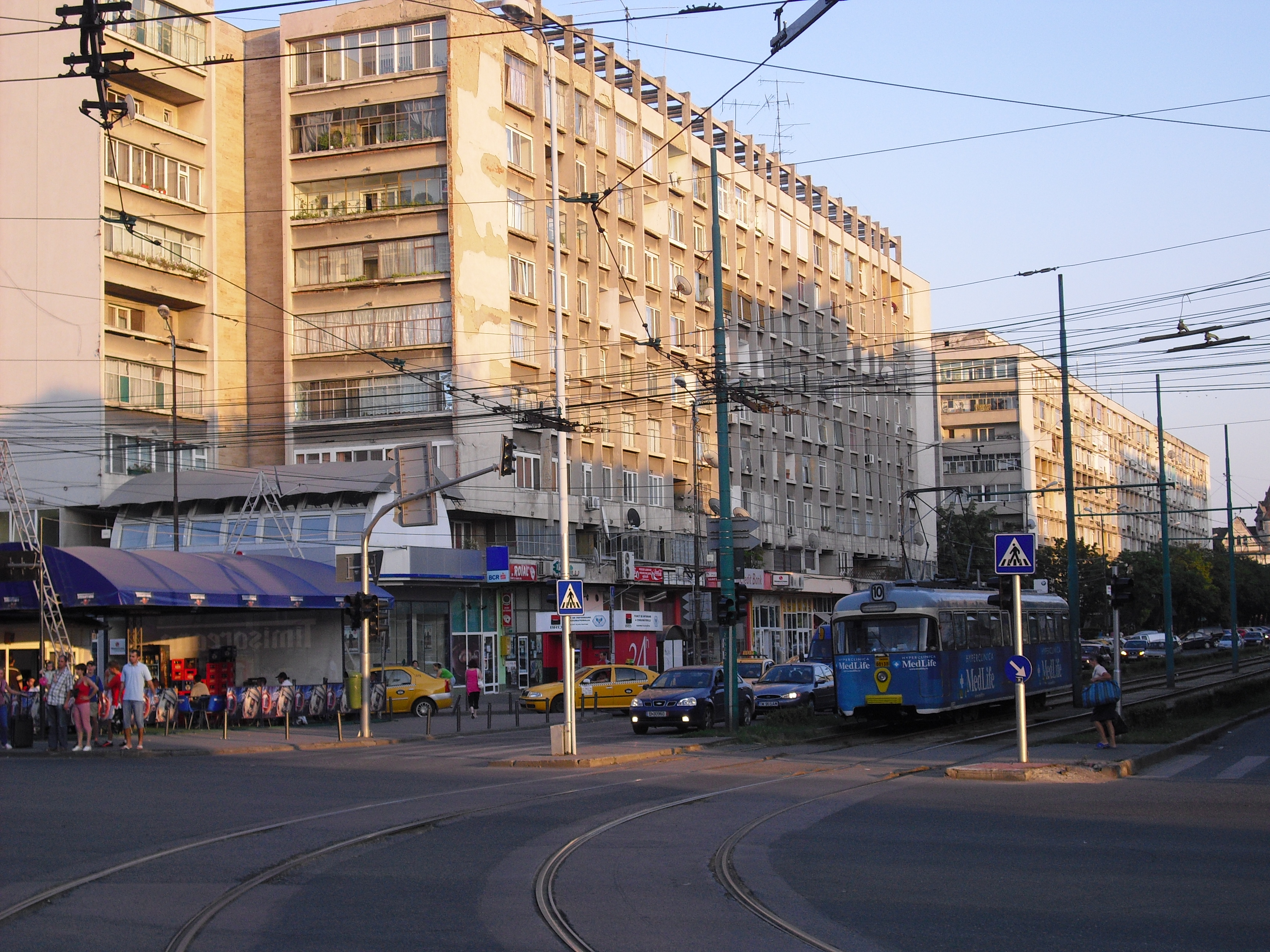 GT4 type tram in Timisoara.